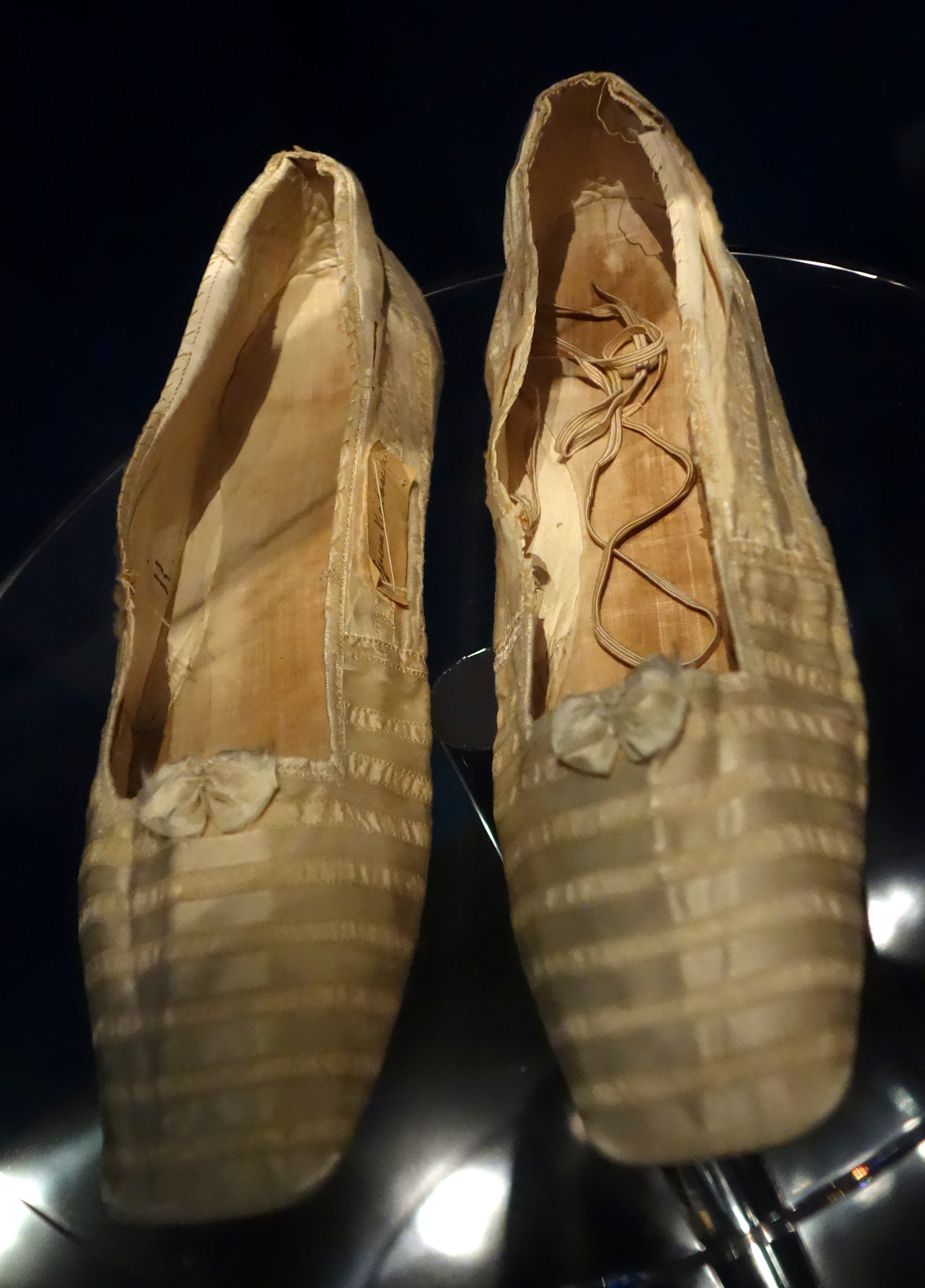 Exhibit in the Bata Shoe Museum, Toronto, Ontario, Canada. The museum permitted photography without restriction. Identification note: While nearly identical to Victoria's wedding shoes in Northampton Museum & Art Gallery (see File:Queen Victorias Wedding Shoes (4209061536).jpg) these shoes lack the paper label visible in the other file (and also appear to be missing ribbons/elastic) so probably should not be described as Victoria's wedding shoes.